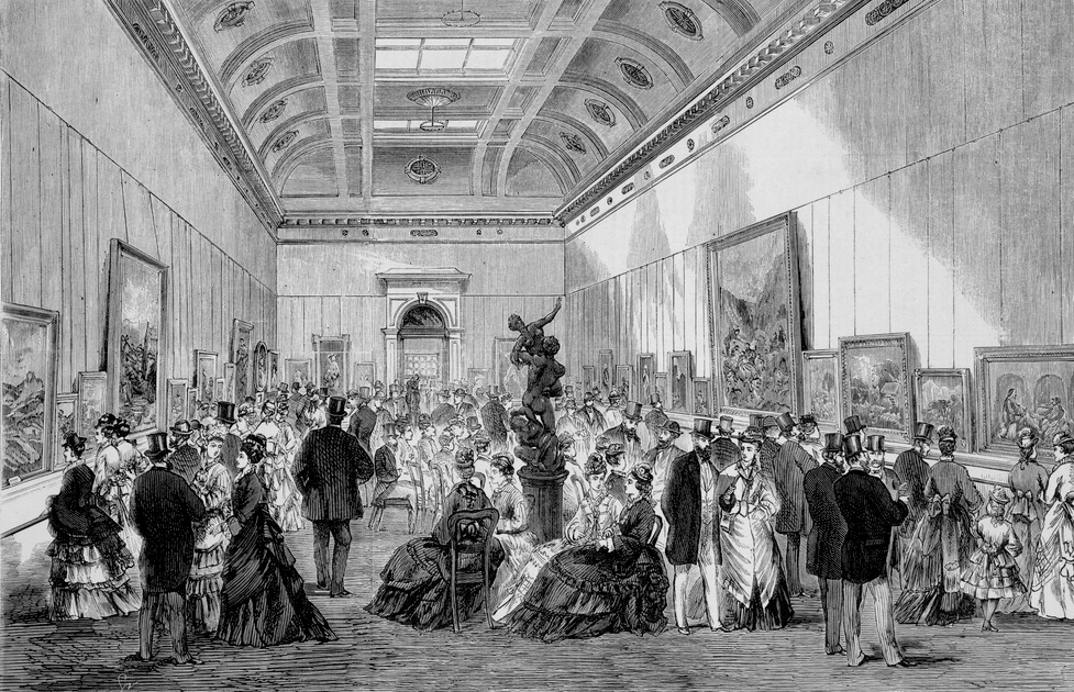 OPENING OF THE NEW FINE ARTS GALLERY, PUBLIC LIBRARY, wood-engraving